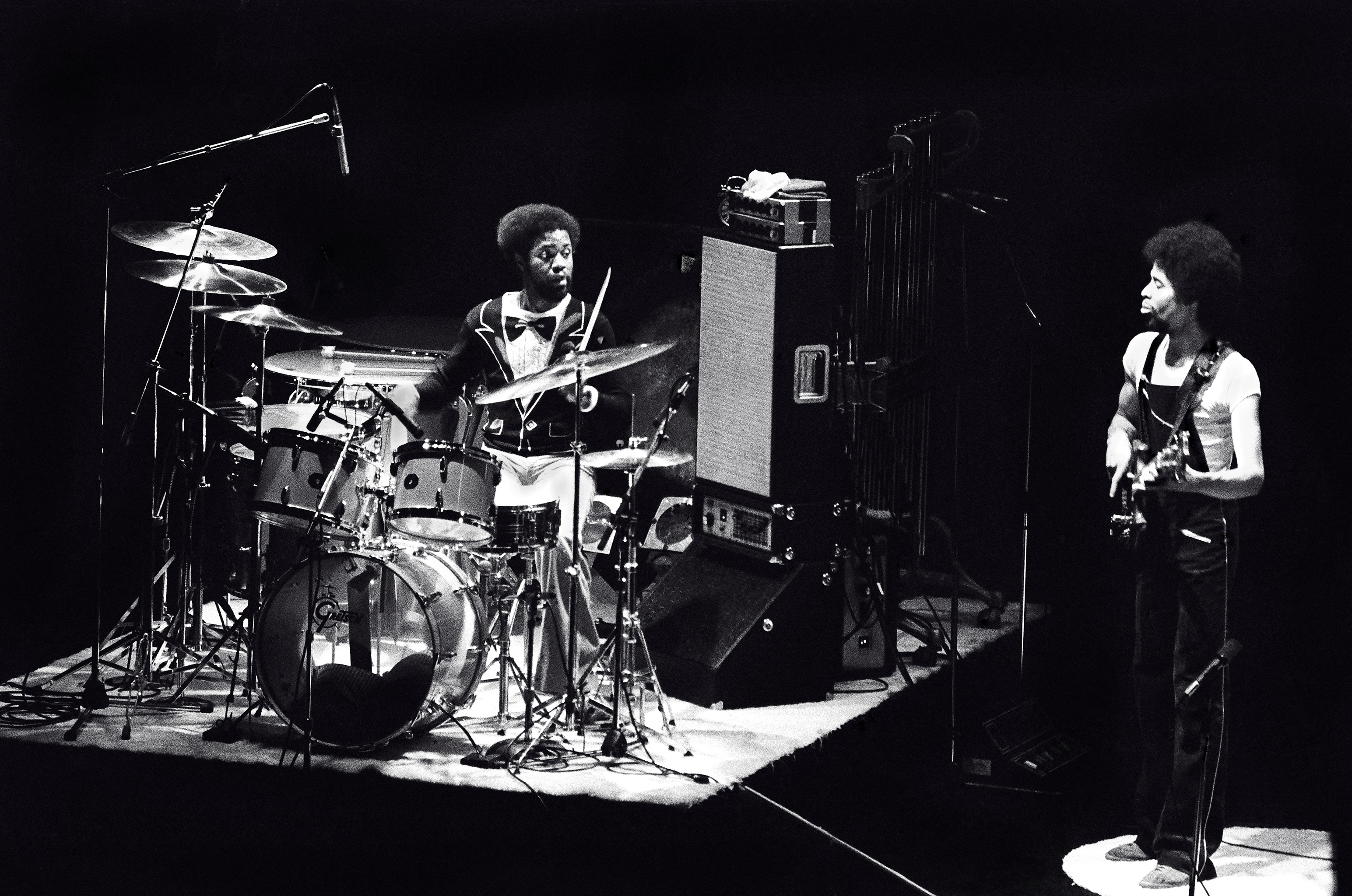 Lenny White & Stanley Clarke Rochester, N.Y. - 1976